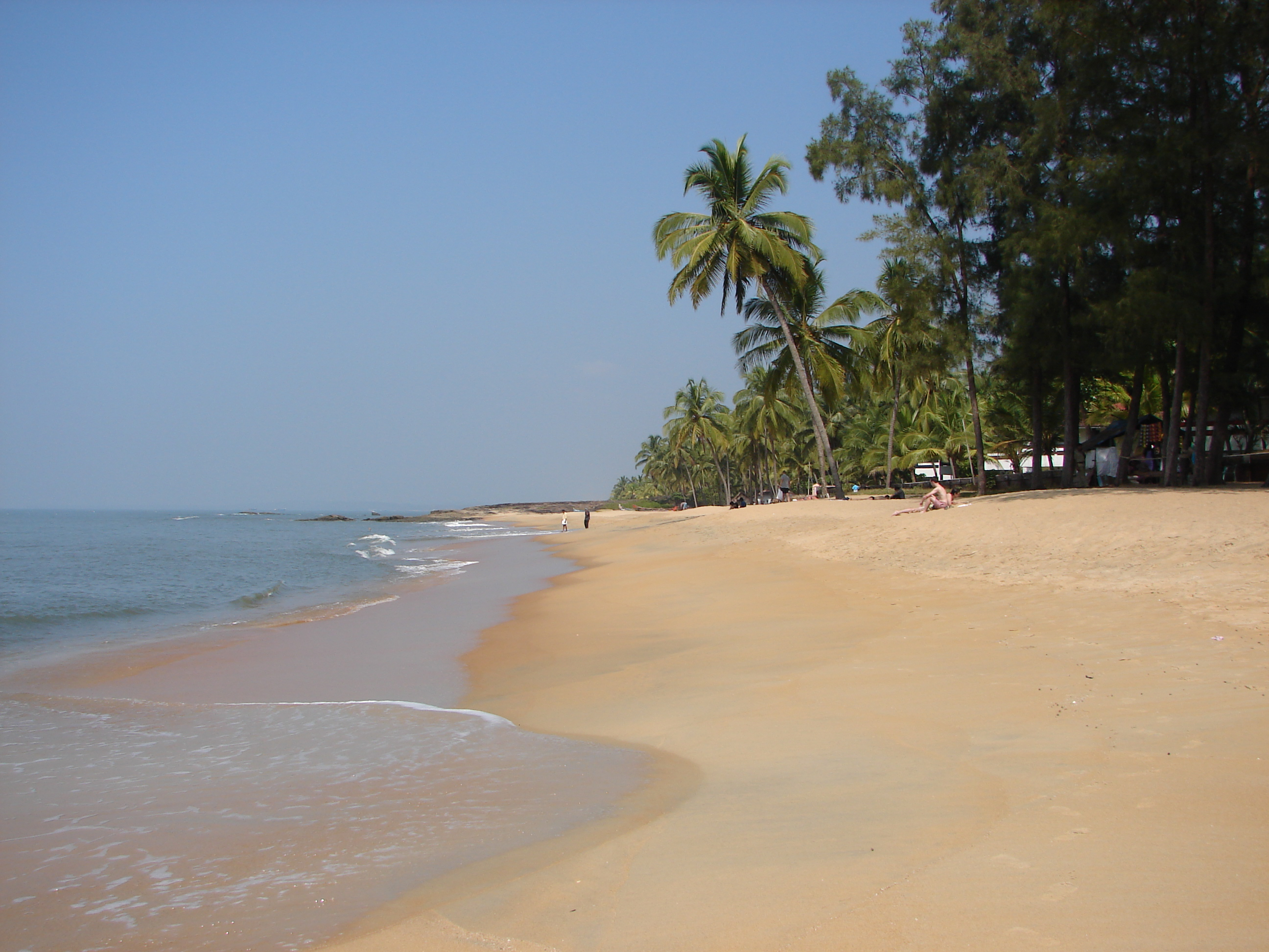 Kappad Beach in Kerala state was one location where the Portuguese explorer Vasco da Gama landed in India on May 27, 1498.